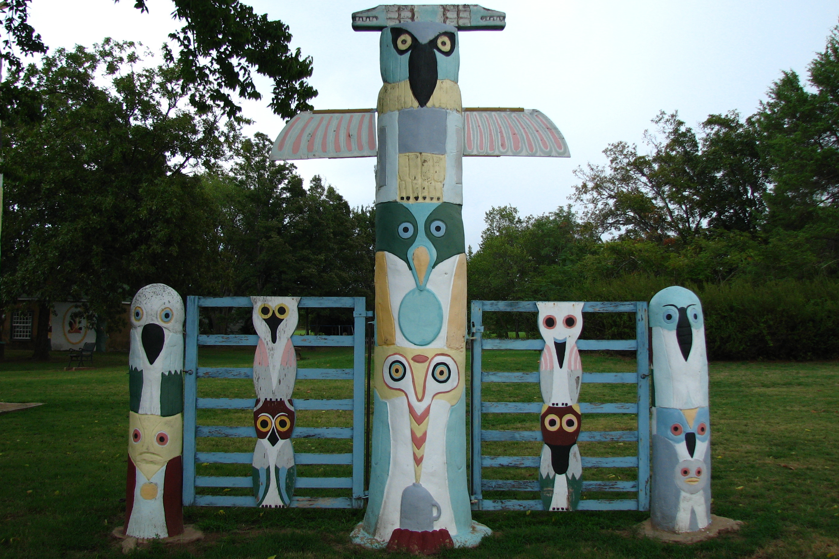 route 66, road trip, great plains